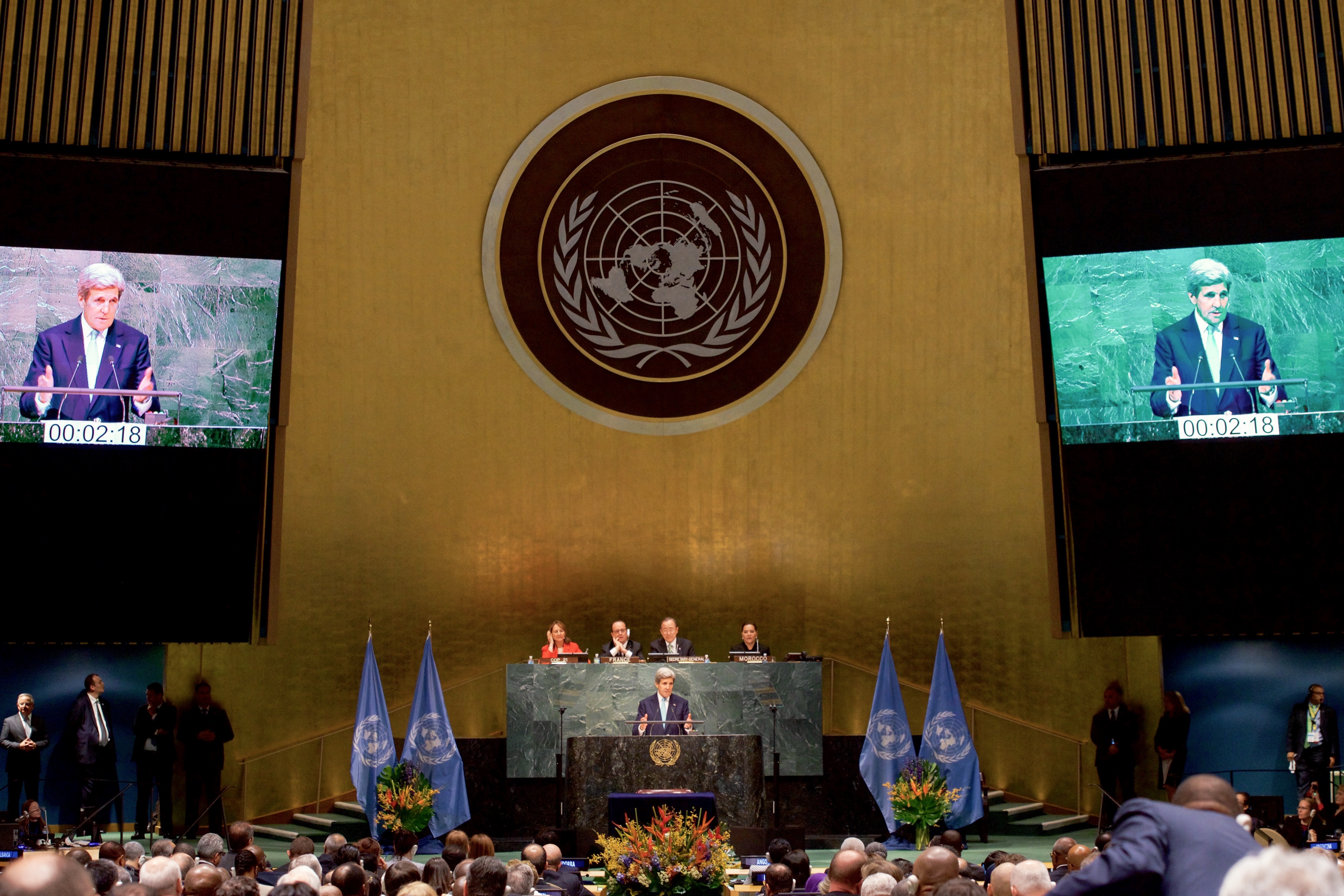 U.S. Secretary of State John Kerry addresses delegates before he signed the COP21 Climate Change Agreement on Earth Day, April 22, 2016, at the United Nations General Assembly Hall in New York, N.Y. [State Department photo/ Public Domain]